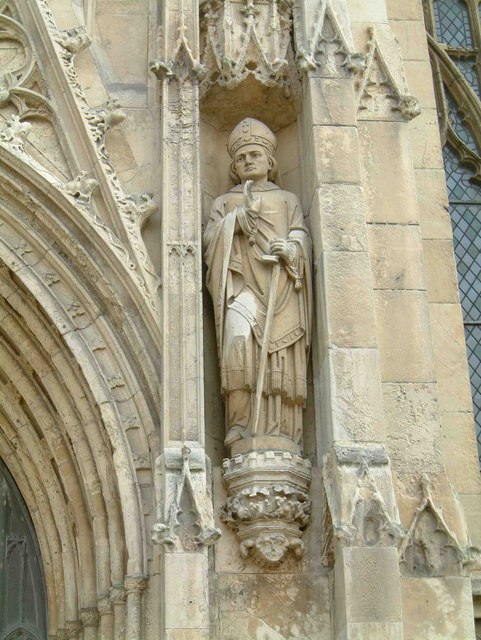 Statue - St John of Beverley on the Minster, Beverley, East Riding of Yorkshire.